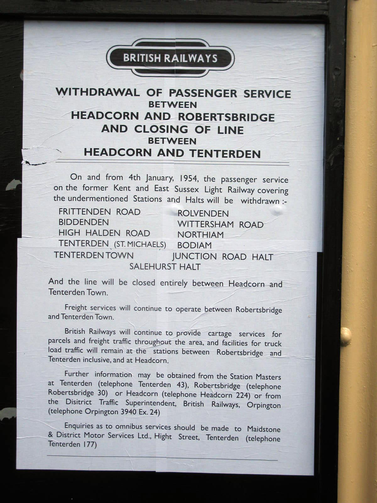 Reproduction of the Closure Notice issued by British Railways in 1953. Displayed at Bodiam station in May 2009.